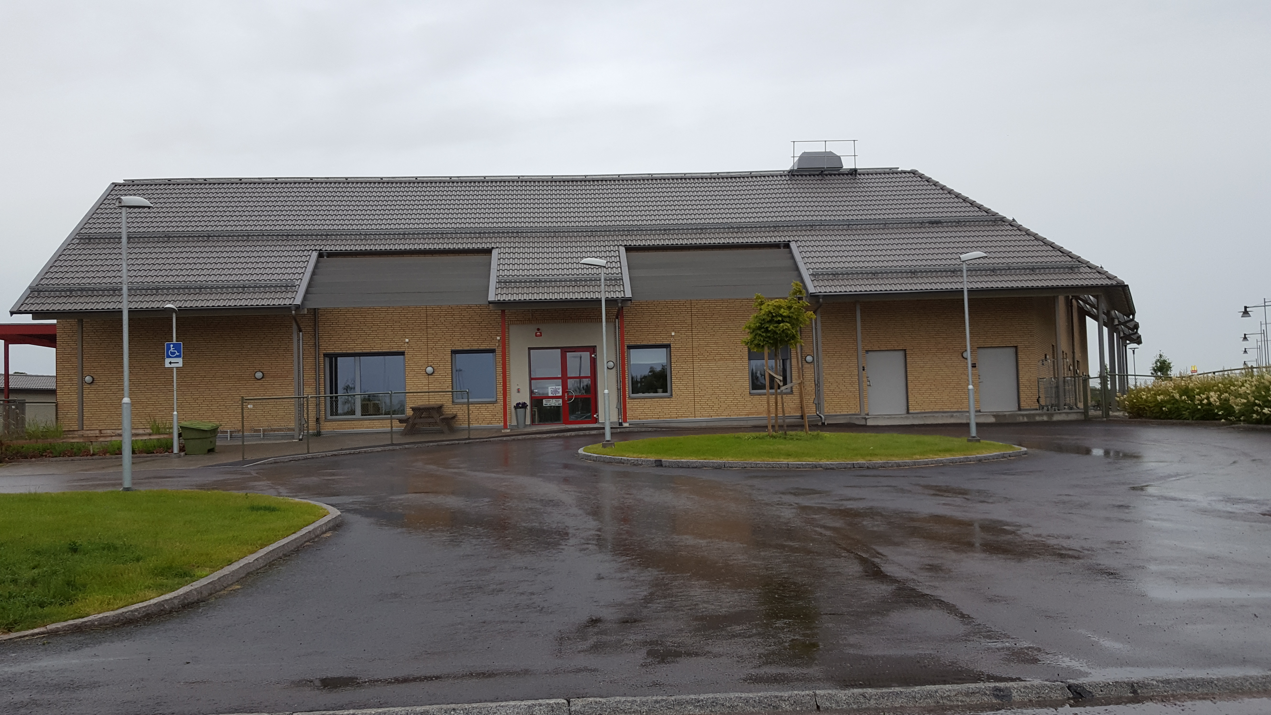 Lillhamra preschool